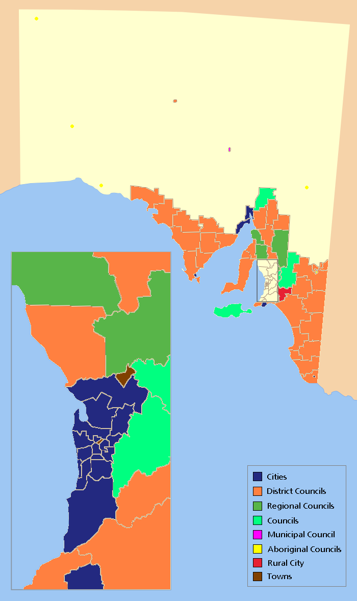 Types of Local Government Areas in South Australia